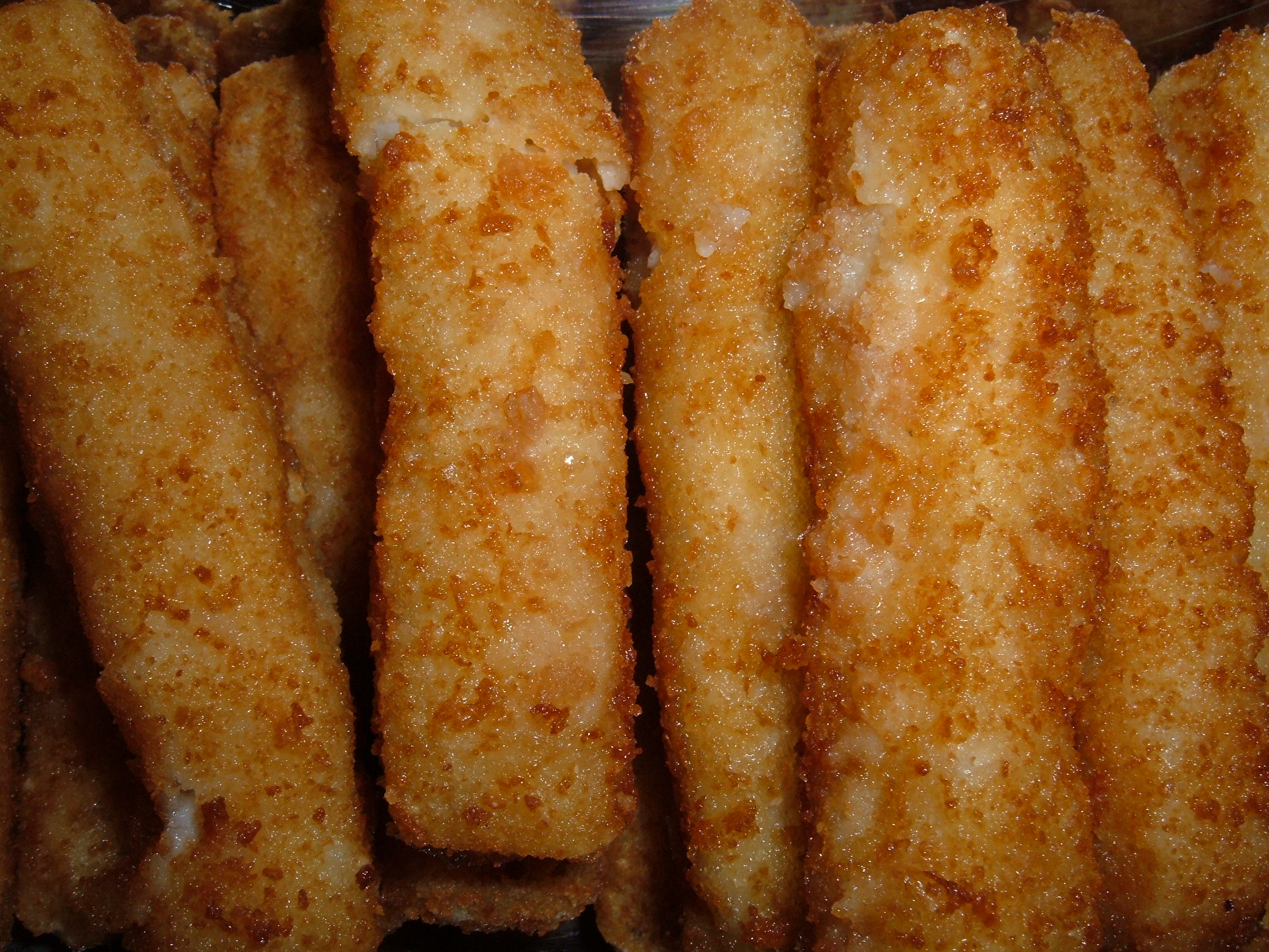 Fish sticks/fingers